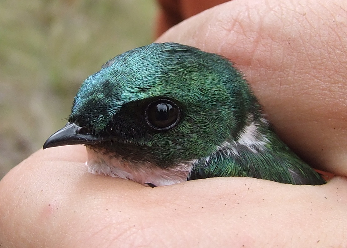 Parque Valle Nuevo, Dominican Republic